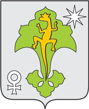 Polevskoy (Sverdlovsk oblast), coat of arms: the Venus symbol (♀), which represents the chemical element copper and was the brand of the Polevskoy Copper Smelting Plant, the character Lizard Queen of Russian folklore, the symbolic representation of the Stone Flower from the story of the same name, and the eight-pointed star, the brand of the Seversky Pipe Plant.